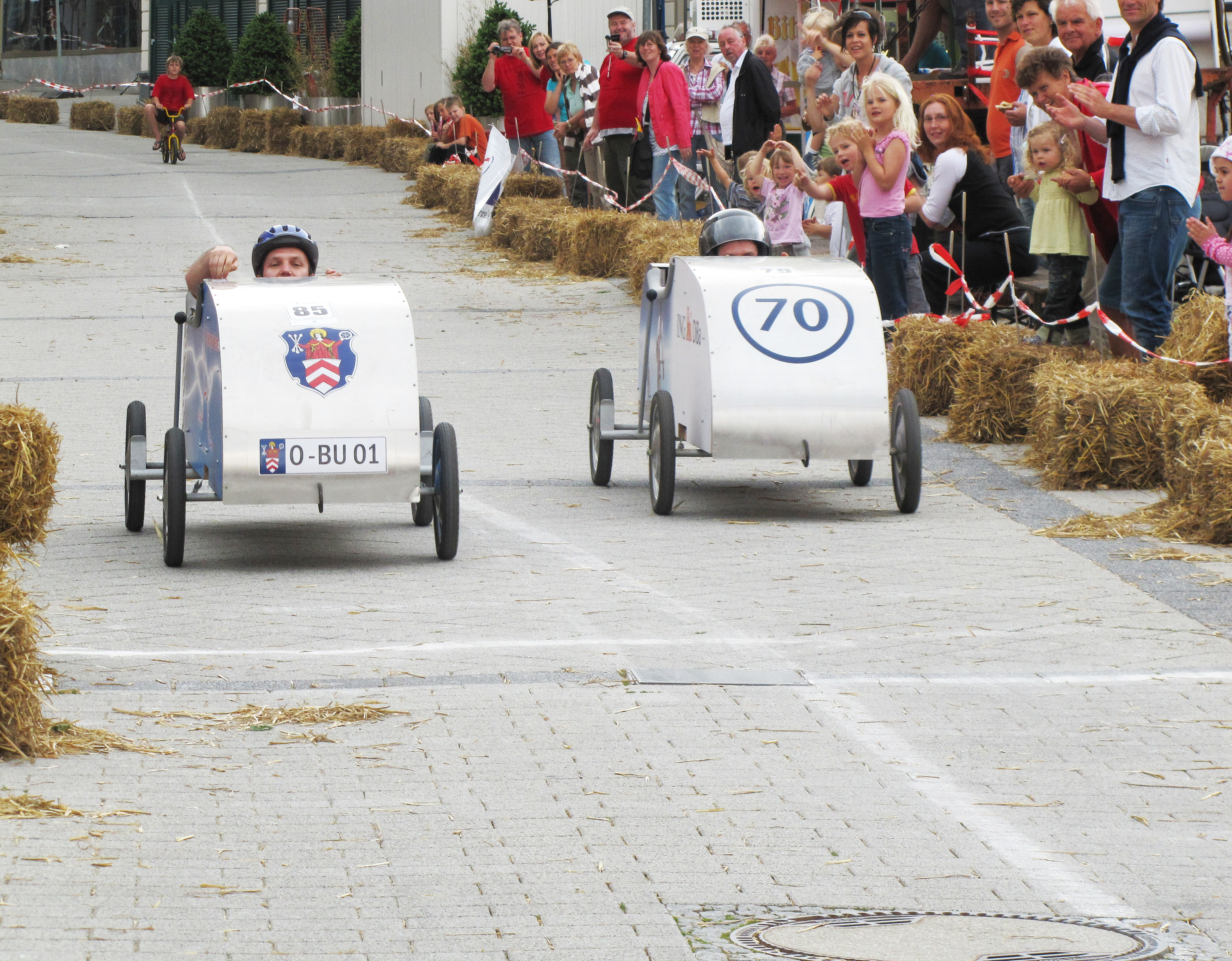 Soapbox cars, finish final race (senior class), Oberursel 2010, Hesse, Germany.